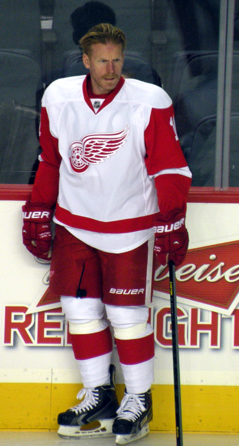 Detroit Red Wings forward Daniel Alfredsson prior to a National Hockey League game against the Calgary Flames.